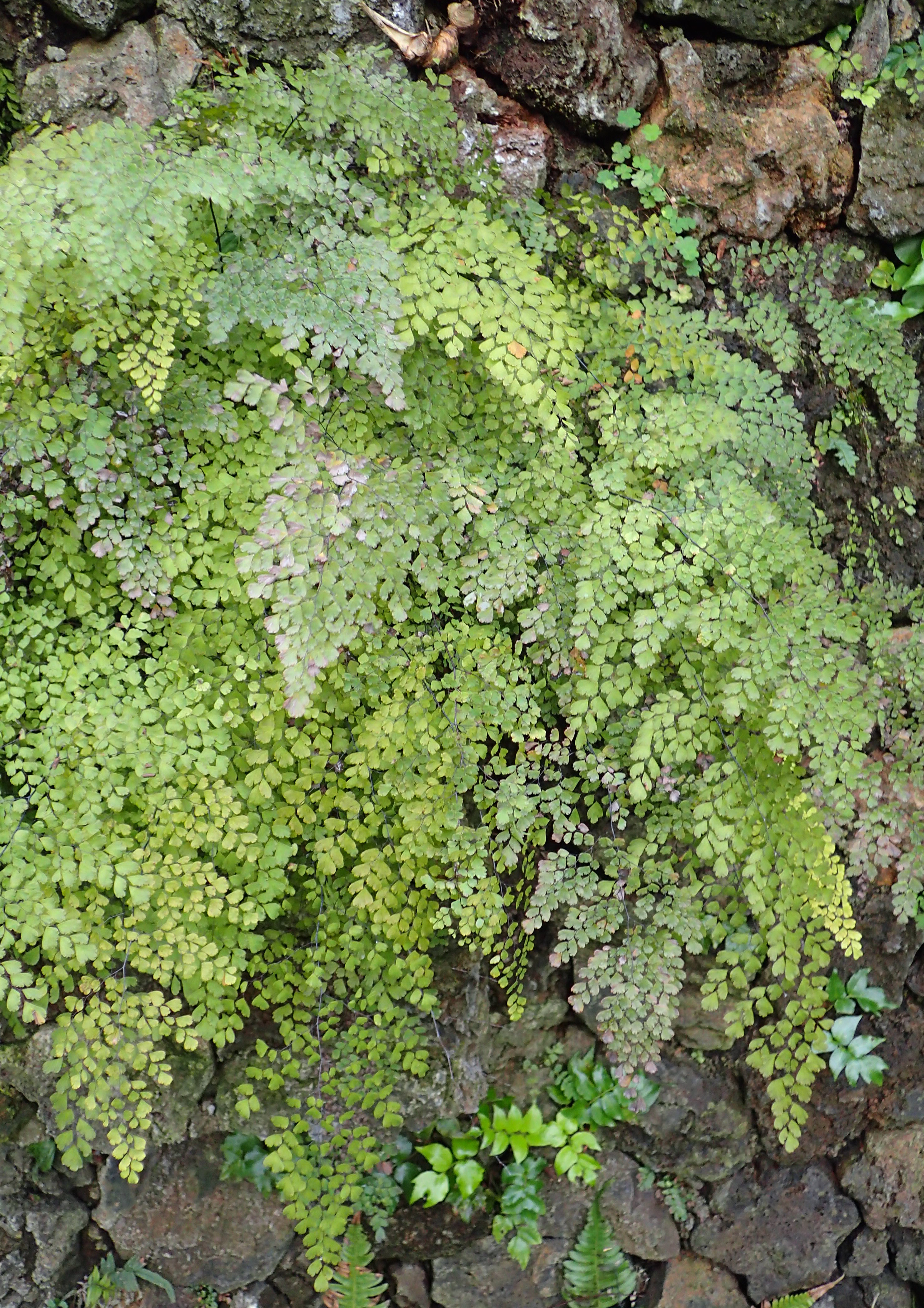 Adiantum raddianum in Jardín de Aclimatación de la Orotava